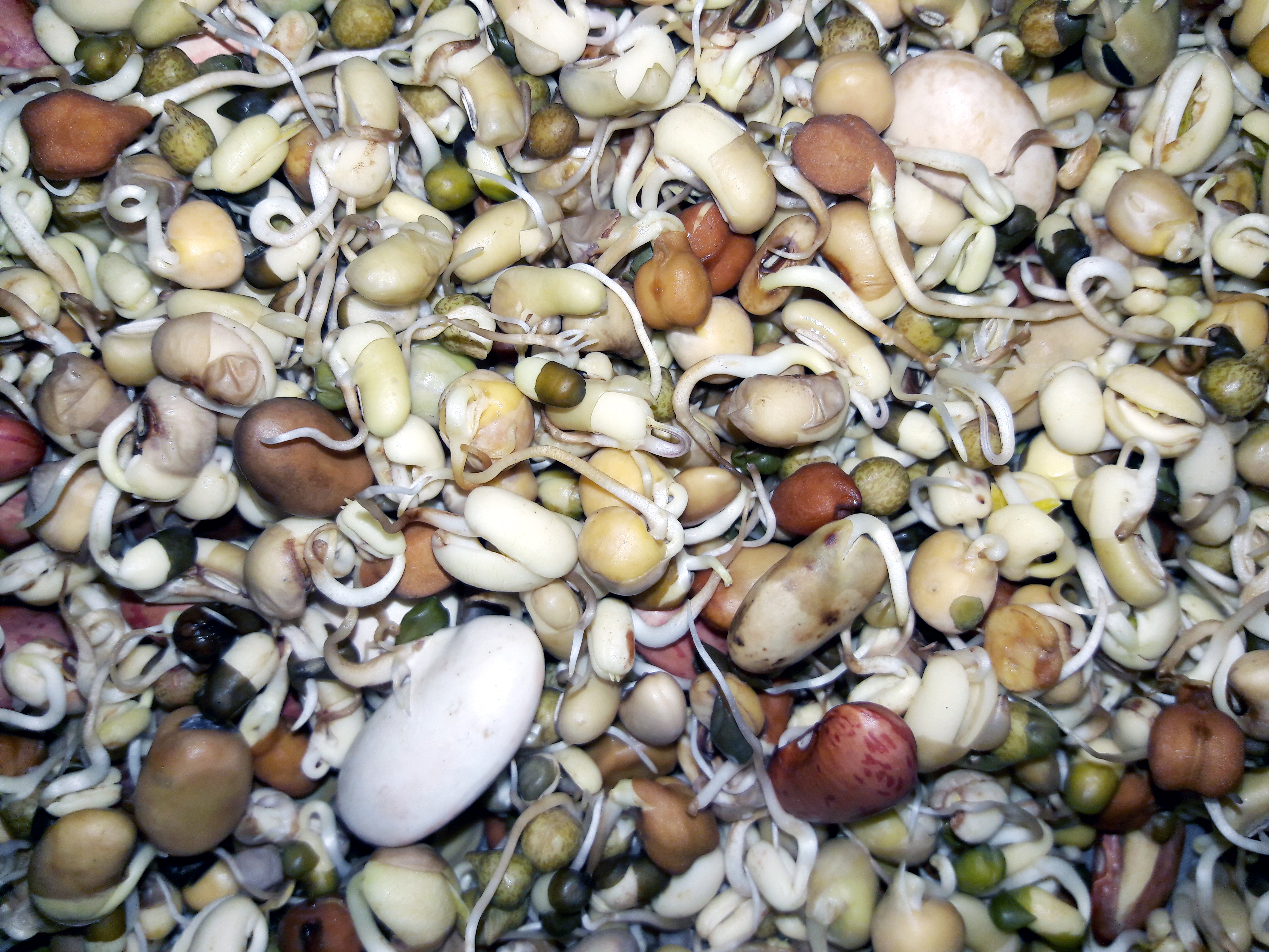 kwati, Nepal